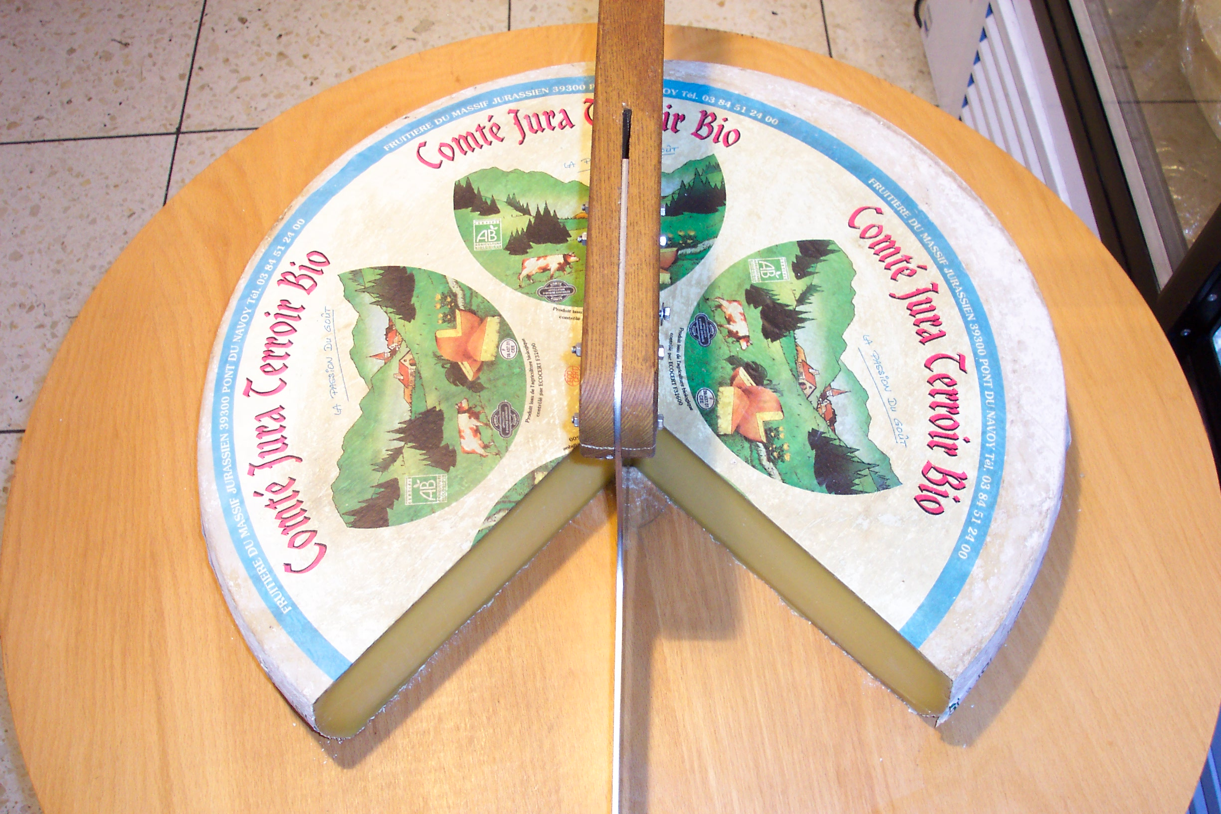 french comté